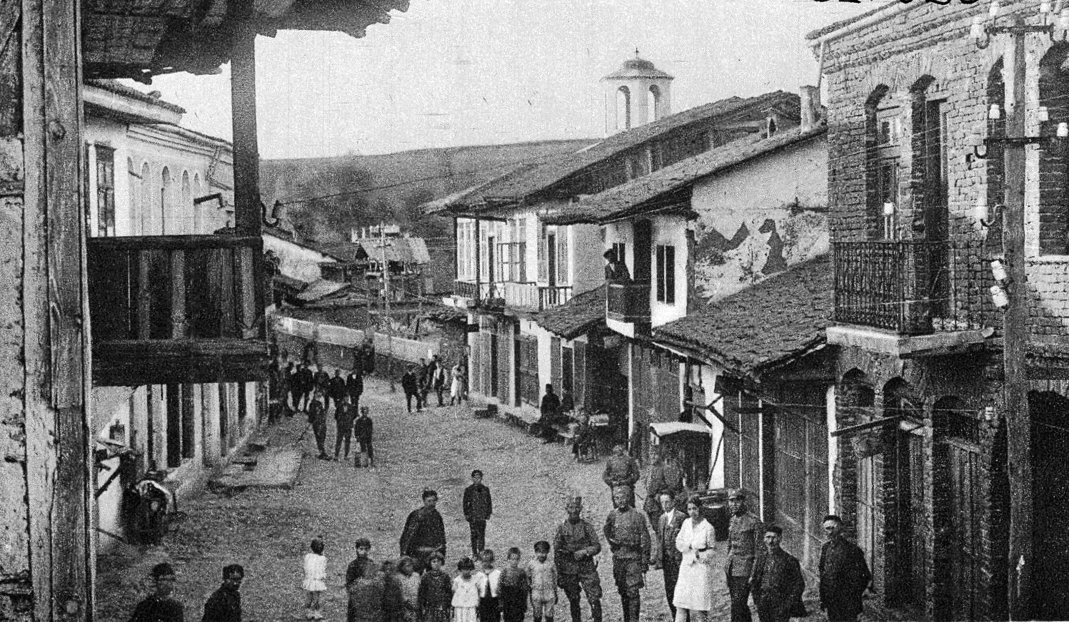 Berovo, 1920s This media file is produced by Wikipedian in Residence in Category:Wikipedian in Residence at DARM in 2016.